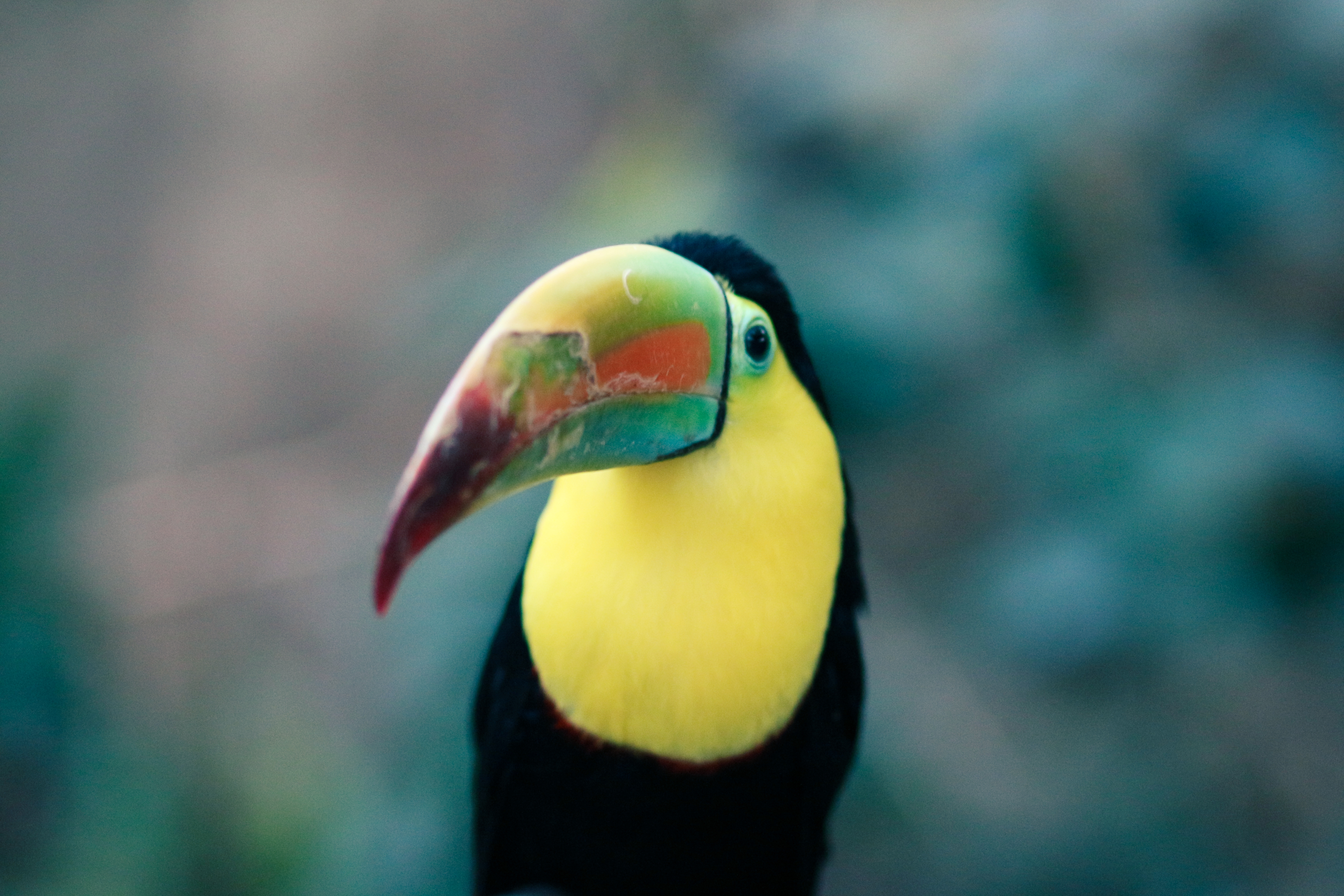 Toucan at the Beardsley Zoo in Bridgeport CT.